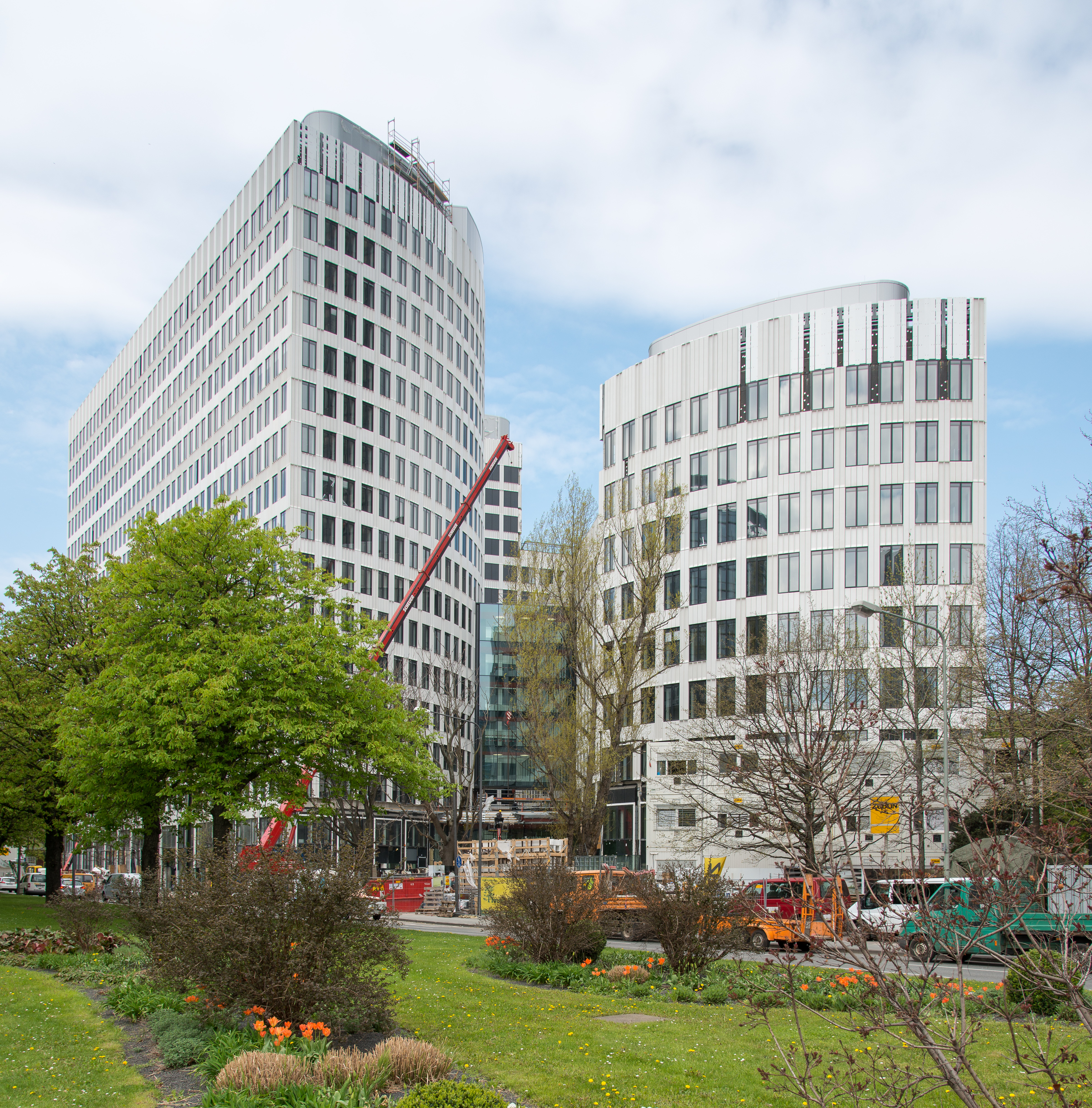 Frankfurt Theodor-Heuß-Allee 2, Leo highrise building complex shortly before its completion (April 2013)